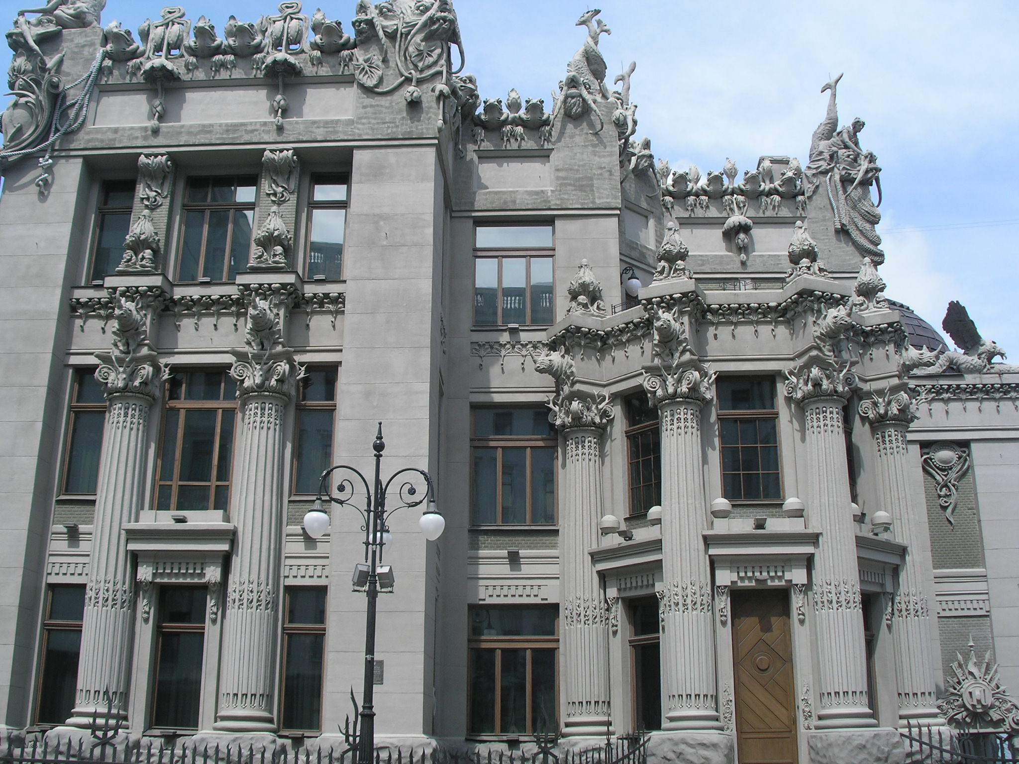 The front façade of the House with Chimaeras in Kiev, Ukraine.